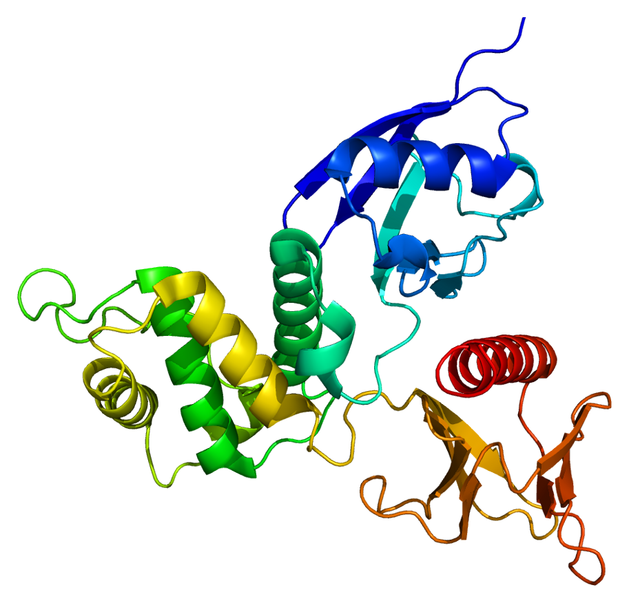 Structure of the RDX protein. Based on PyMOL rendering of PDB 1gc6.